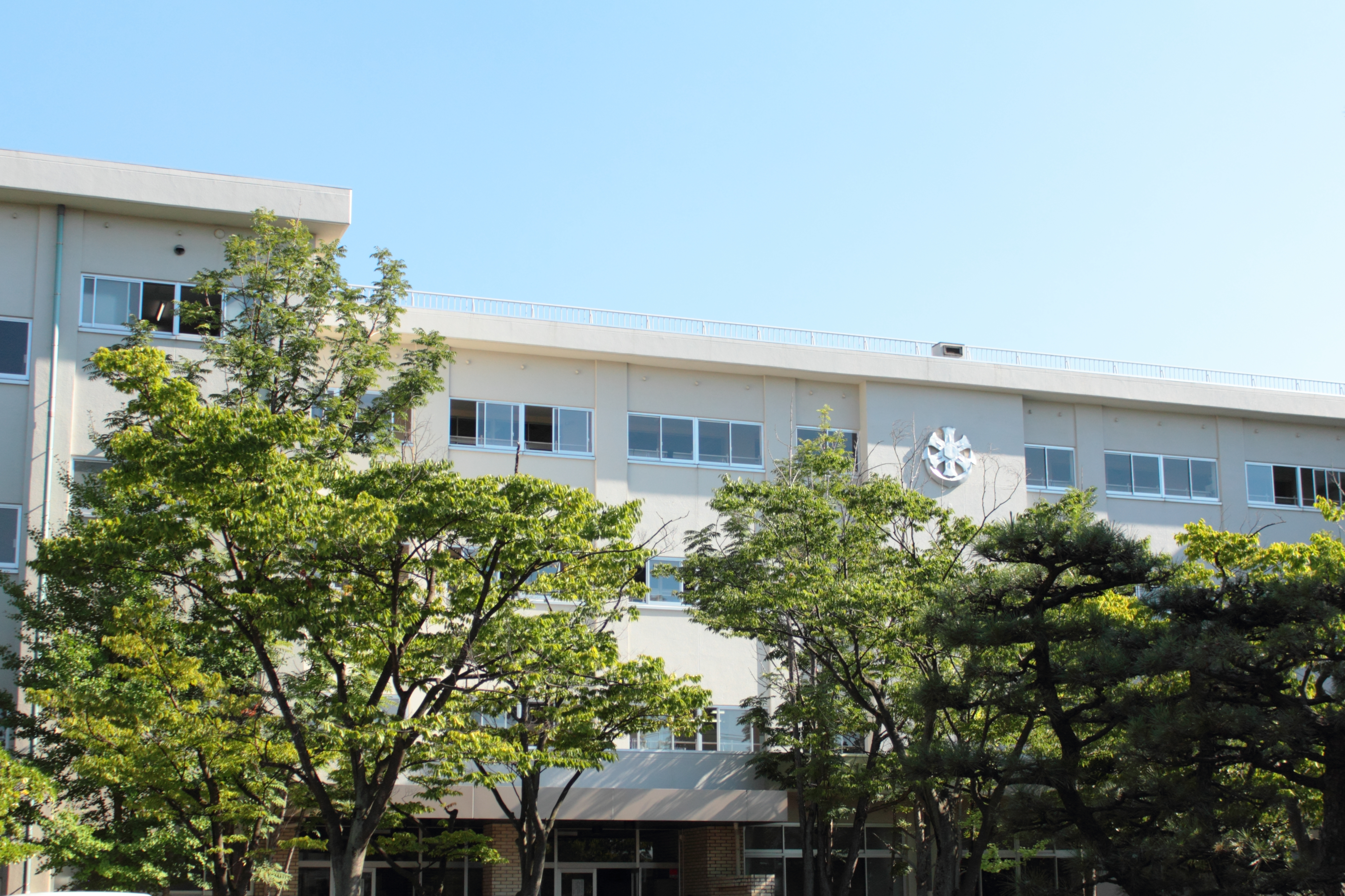 The front entrance of Niigata Prectural Niigata Minami High School in Chuo Ward, Niigata City.